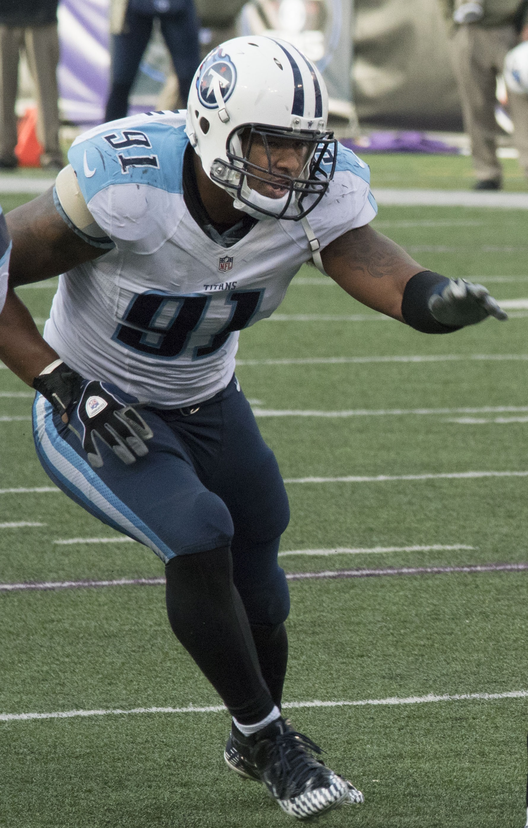 Tennessee Titans linebacker, Derrick Morgan, in a game against the Baltimore Ravens on November 9, 2014.